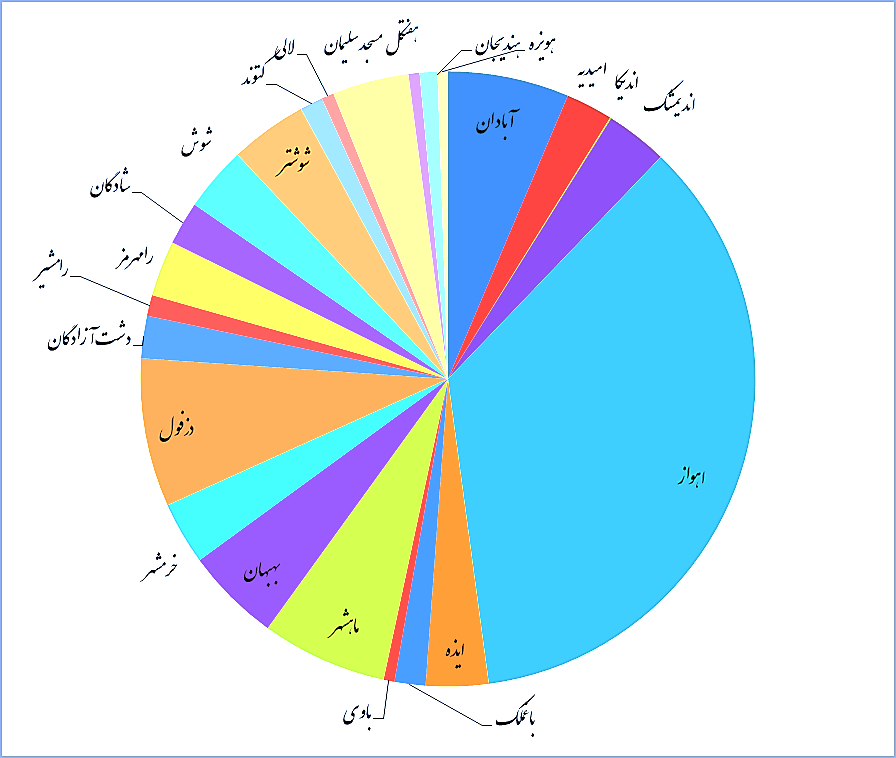 Bank deposits in Khuzestan's counties